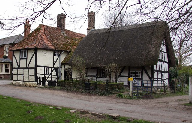 42A and 42B High Street, Milton, Vale of White Horse, Oxfordshire (formerly Berkshire)